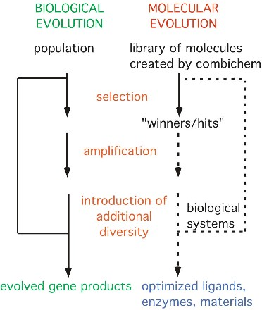 This work is a diagram from a conbinatorial biology article at . It describes the pathway differences between natural and synthetic pathways. This is a critical illustration for a lay appreciation of the process